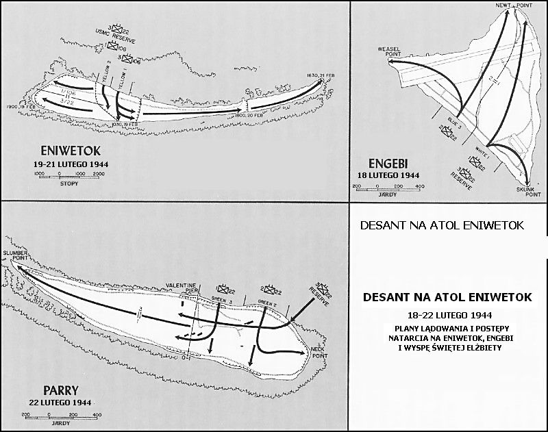 Operation Catchpole